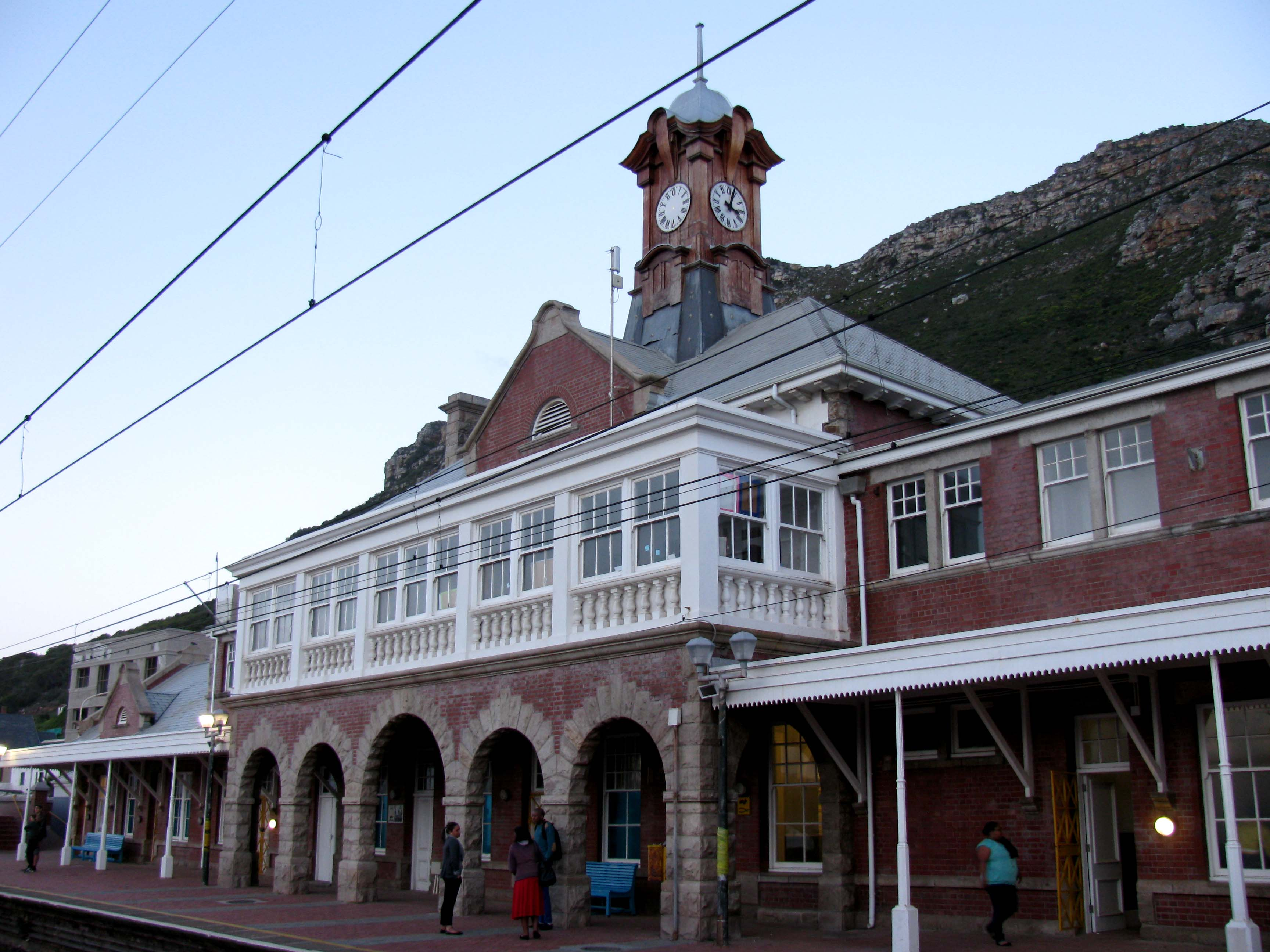 This media shows a South African Protected Site with SAHRA file reference 9/2/081/0031.